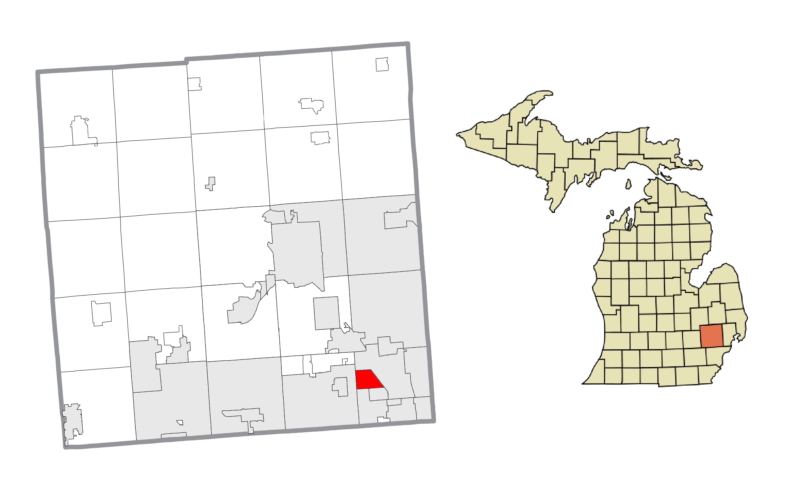 Berkeley, MI